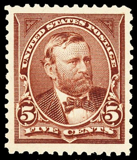 US Postage stamp: Ulysses S. Grant, 1894 Issue, 5c, brown